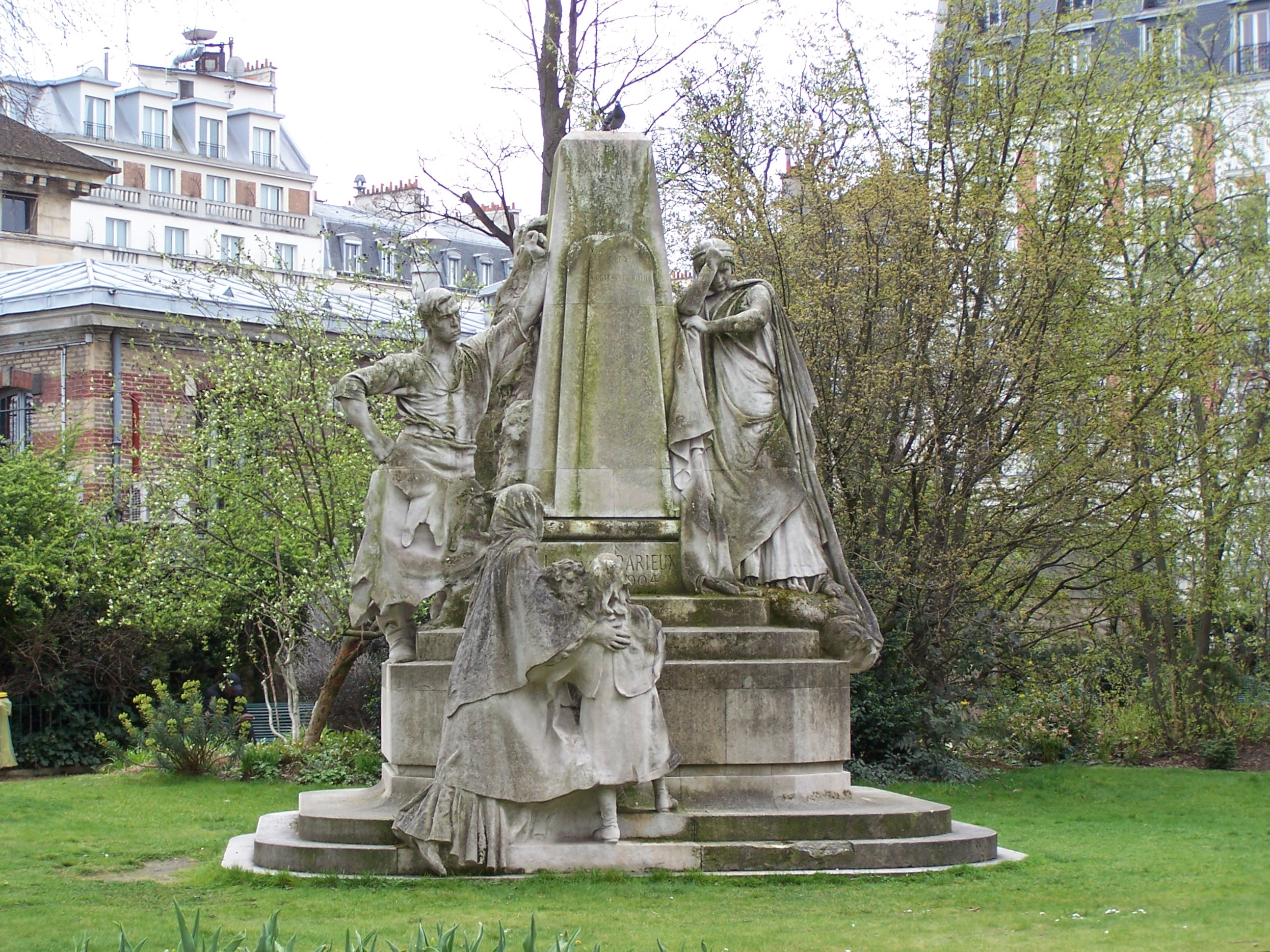 Monument à Ludovic Trarieux, square Claude-Nicolas-Ledoux, Paris